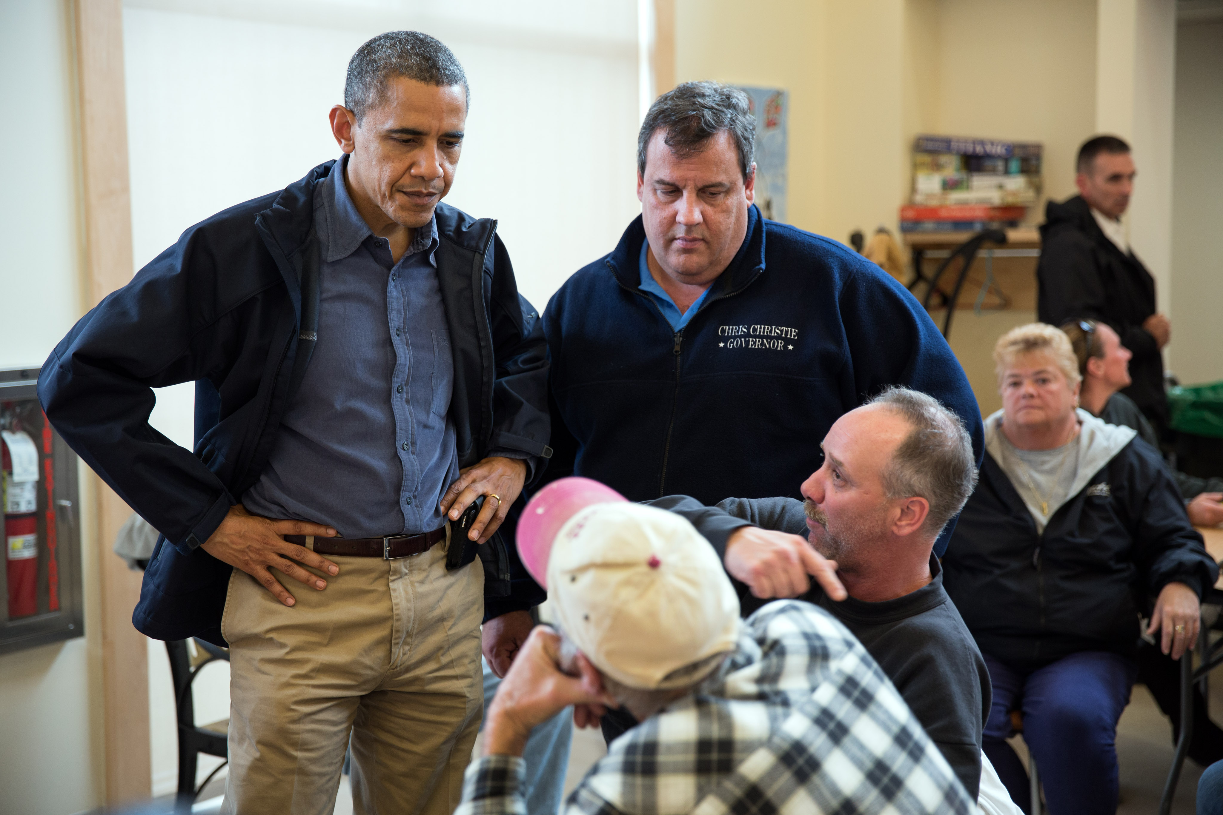 President Barack Obama and New Jersey Gov. Chris Christie talk with local residents at the Brigantine Beach Community Center in Brigantine, N.J., Oct. 31, 2012. (Official White House Photo by Pete Souza)